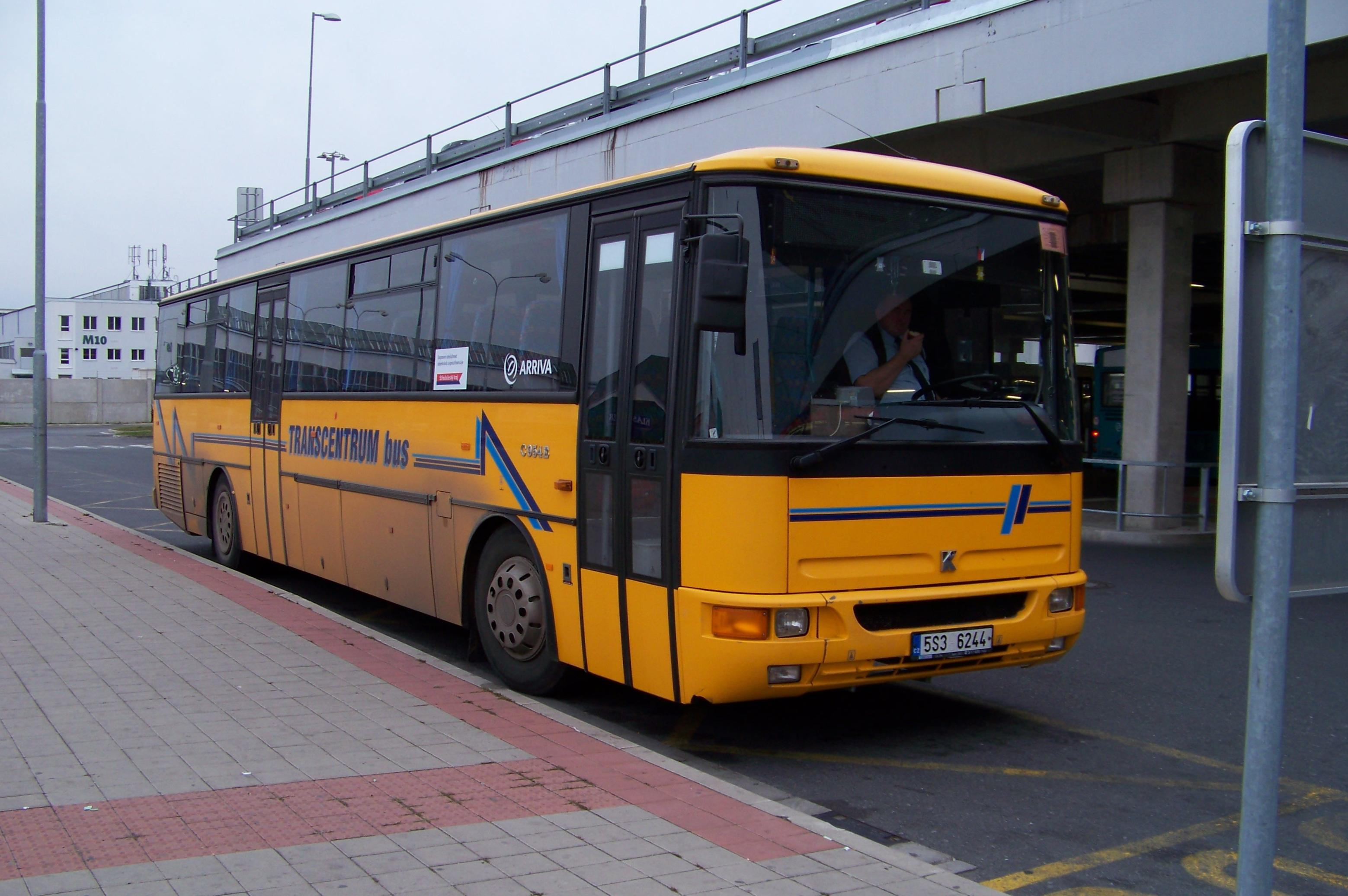 Mladá Boleslav, Central Bohemian Region, the Czech Republic. A bus station, a bus Karosa C 954 of Transcentrum Bus company. - Google Maps - Google Earth